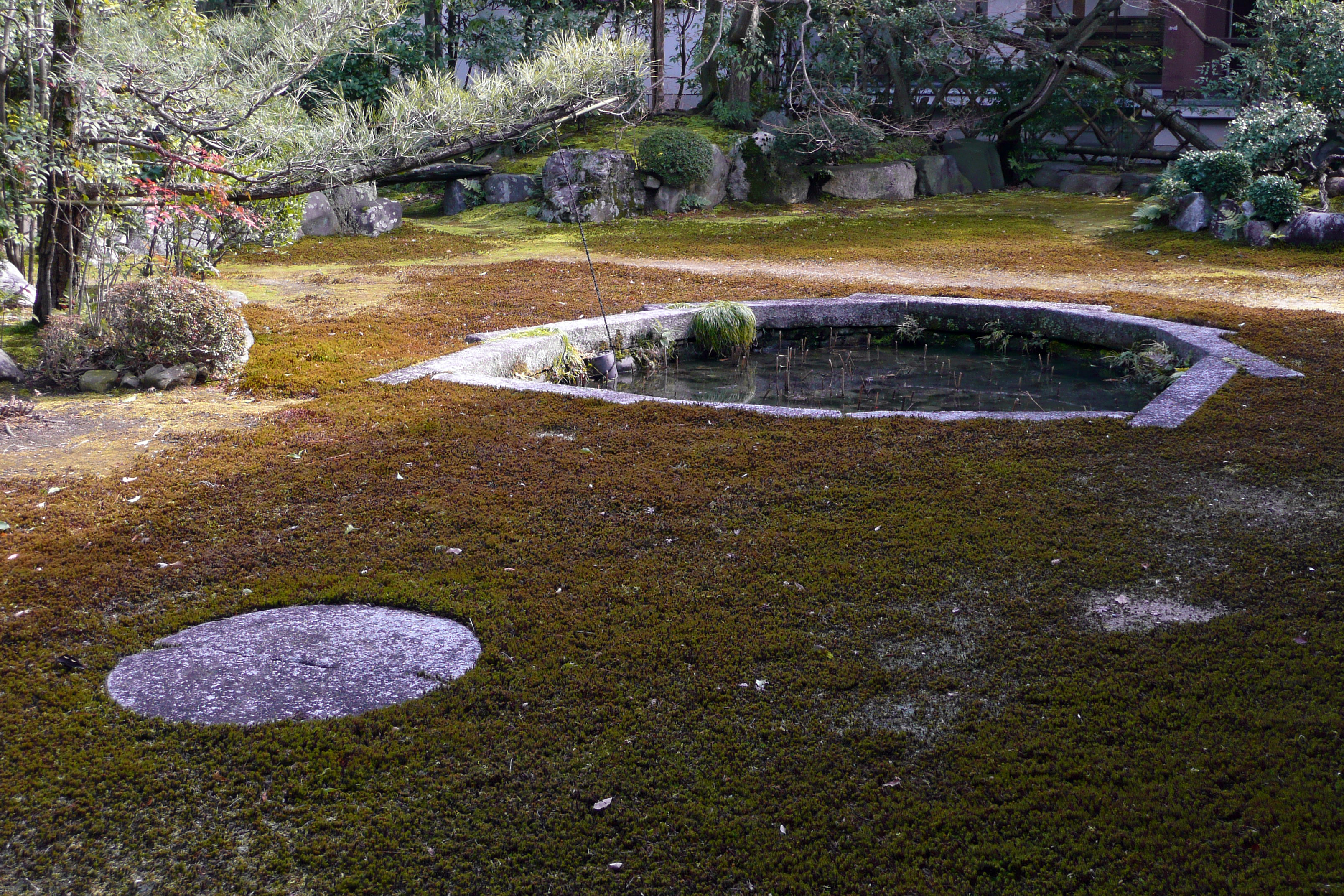 Honpoji in Kyoto, Kyoto prefecture, Japan